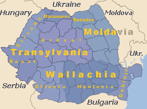 Judete & Regions of Romania